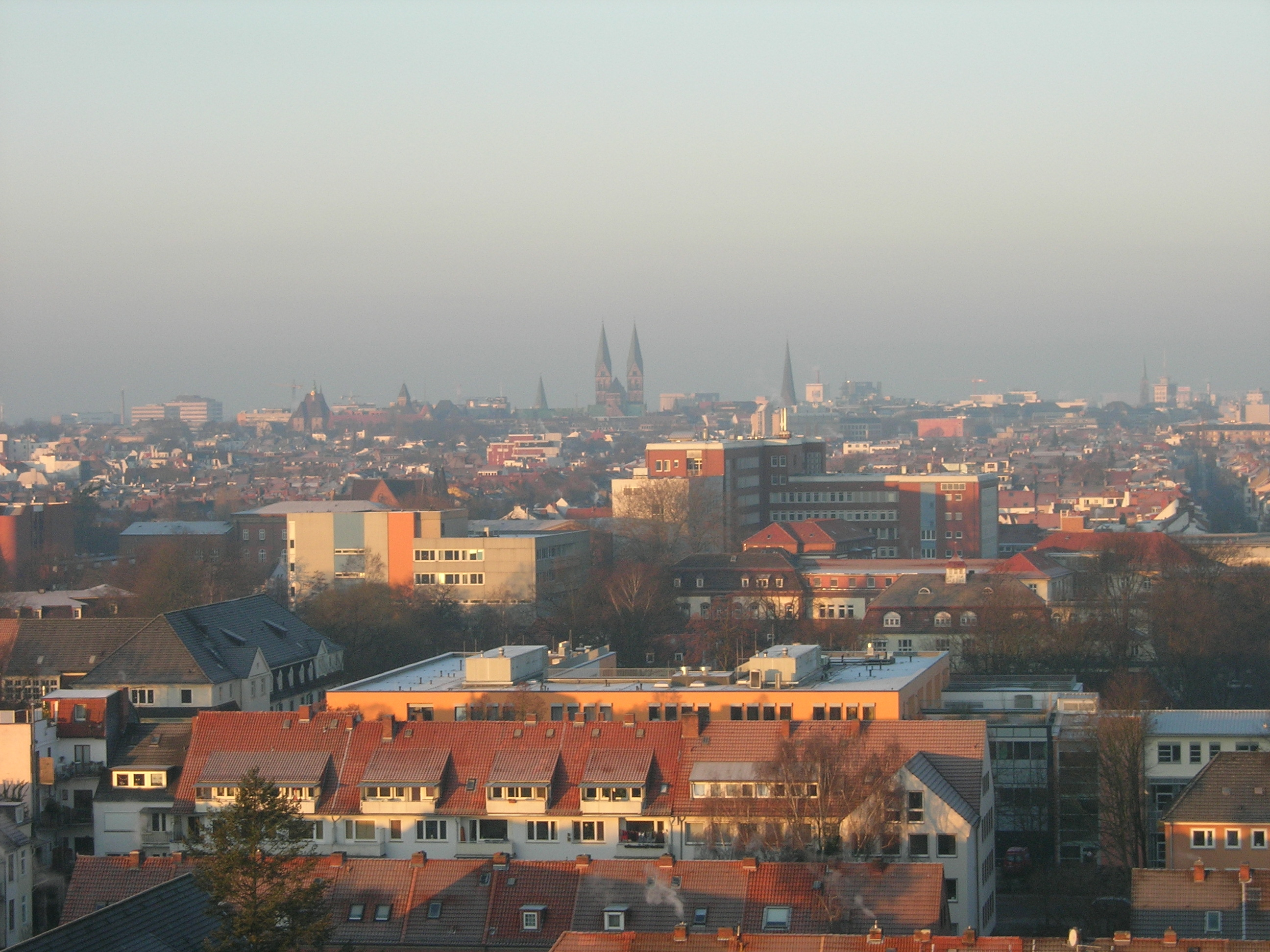 Bremen over the roofs